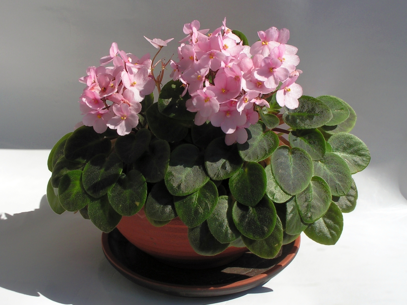 The flowering hybrid saintpaulia